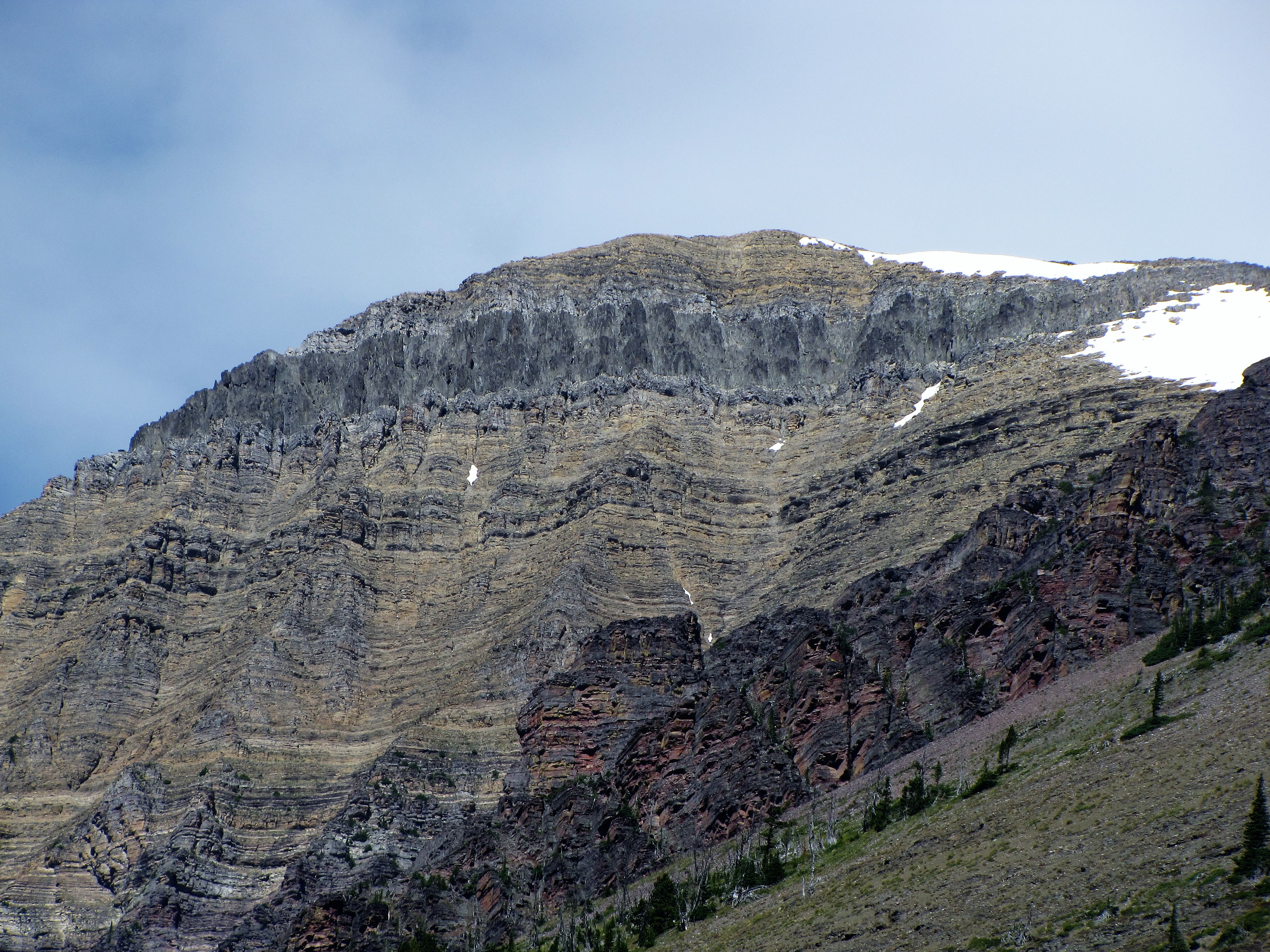 Rising Wolf Mountain summit from the south, Glacier National park, Montana